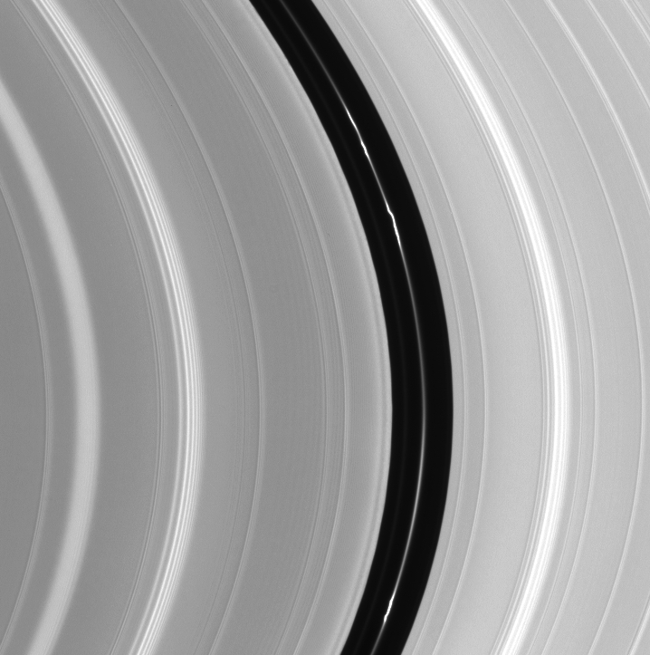 An intriguing knotted ringlet within the Encke Gap is the main attraction in this Cassini image. The Encke Gap is a small division near the outer edge of Saturn's rings that is about 300 kilometers (190 miles) wide. The tiny moon Pan (20 kilometers, 12 miles across) orbits within the gap and maintains it. Many waves produced by orbiting moons are visible. The image was taken in visible light with the narrow angle camera on October 29, 2004, from a distance of about 807,000 kilometers (501,000 miles) from Saturn. The image scale is 4.5 kilometers (2.8 miles) per pixel. The Cassini-Huygens mission is a cooperative project of NASA, the European Space Agency and the Italian Space Agency. The Jet Propulsion Laboratory, a division of the California Institute of Technology in Pasadena, manages the Cassini-Huygens mission for NASA's Science Mission Directorate, Washington, D.C. The imaging team consists of scientists from the US, England, France, and Germany. The imaging operations center and team lead (Dr. C. Porco) are based at the Space Science Institute in Boulder, Colo. For more information about the Cassini-Huygens mission, visit and the Cassini imaging team home page